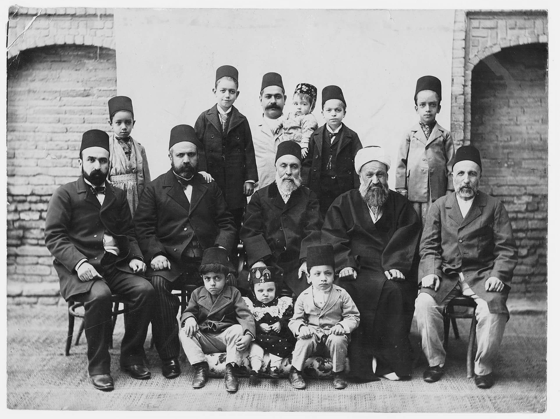 That's Al-shakir Effendi Family 1901. Taken in Baghdad, Iraq.